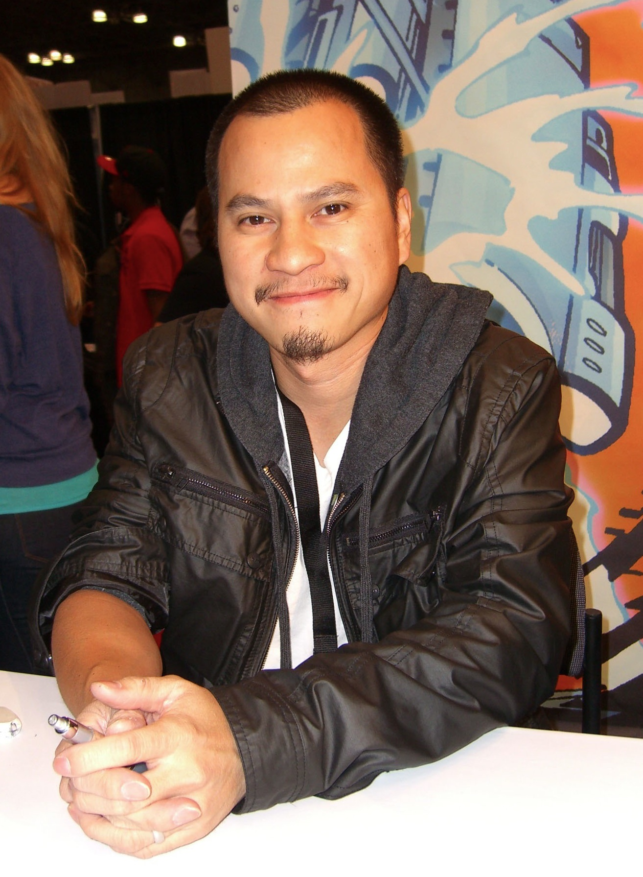 Comics creator Dustin Nguyen at the 2011 New York Comic Con, Friday, October 14, 2011. This photo was created by Luigi Novi. It is not in the public domain, and use of this file outside of the licensing terms is a copyright violation.